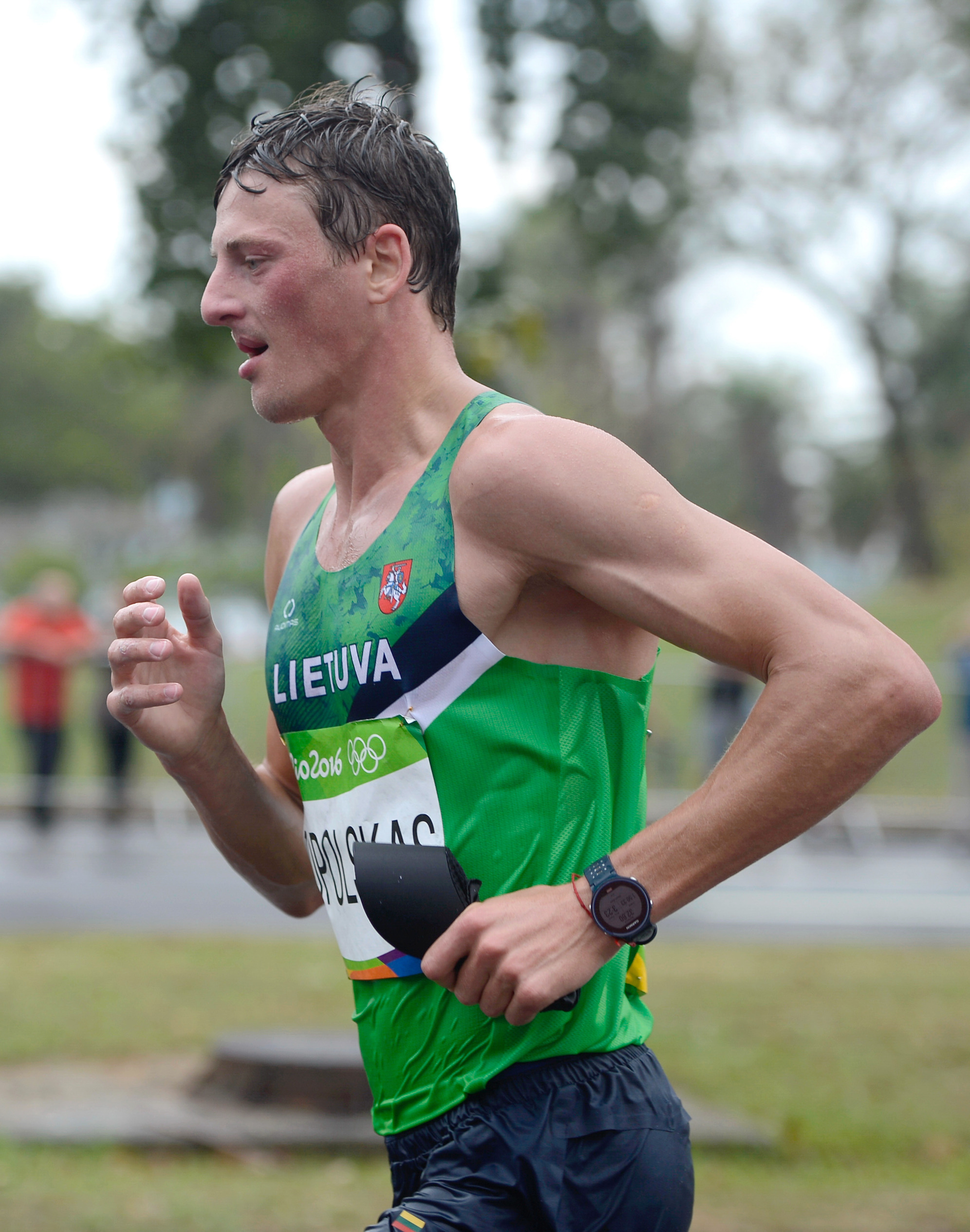 Rio de Janeiro - Sob chuva forte atletas da maratona masculina passam pelo aterro do Flamengo (Tânia Rêgo/Agência Brasil)